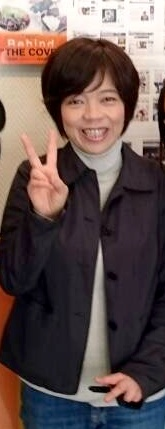 八木 景子（やぎ けいこ）は日本の映画監督。 Keiko Yagi, Japanese film director (Thanks to Y's lens)